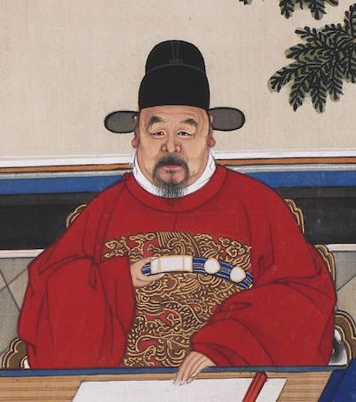 Wang Qiong (simplified